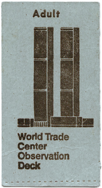 WTC Observation Deck ticket, from the early 80's